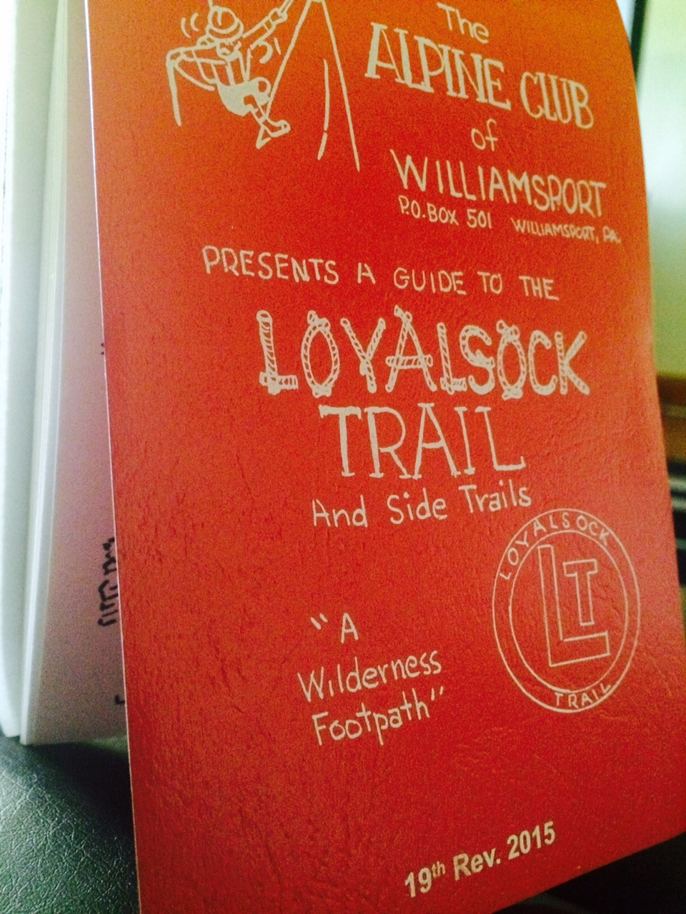 This is an example photograph of the Loyalsock Trail guide.